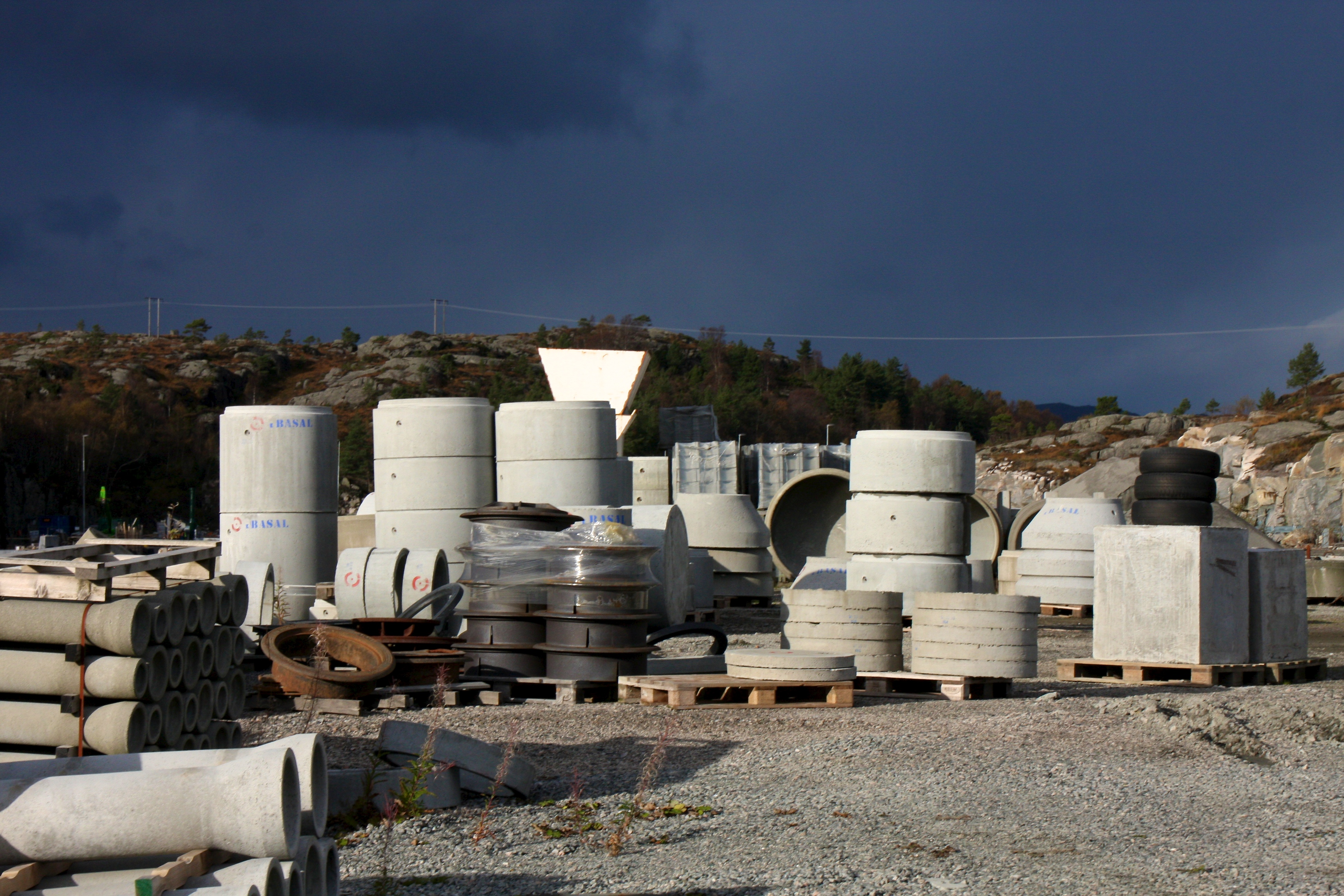 Gulen municipality, Norway.